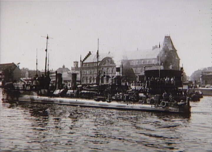 HDMS Havkatten returns moored in Copenhagen in May 1945 after being in exile in Sweden since 29 August 1943